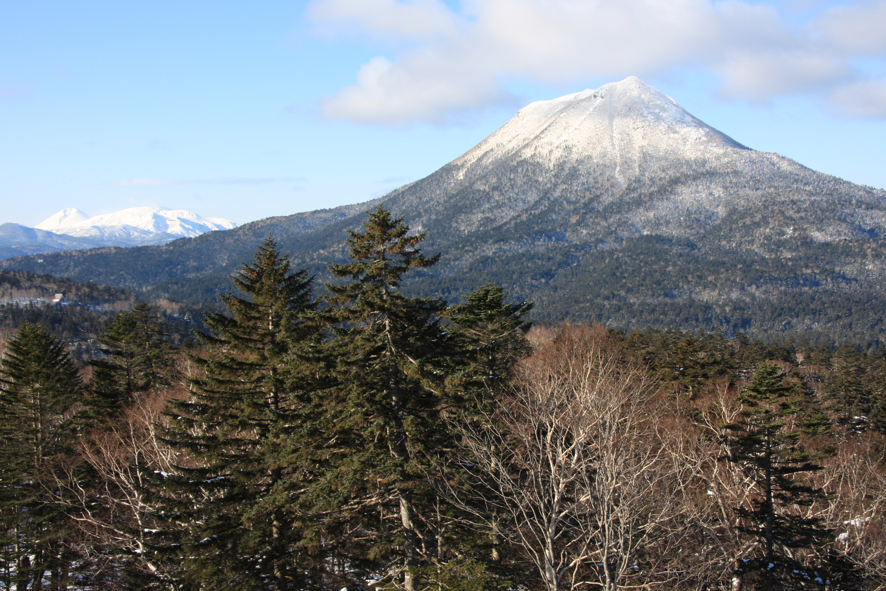 Mount Oakan seen from the east.